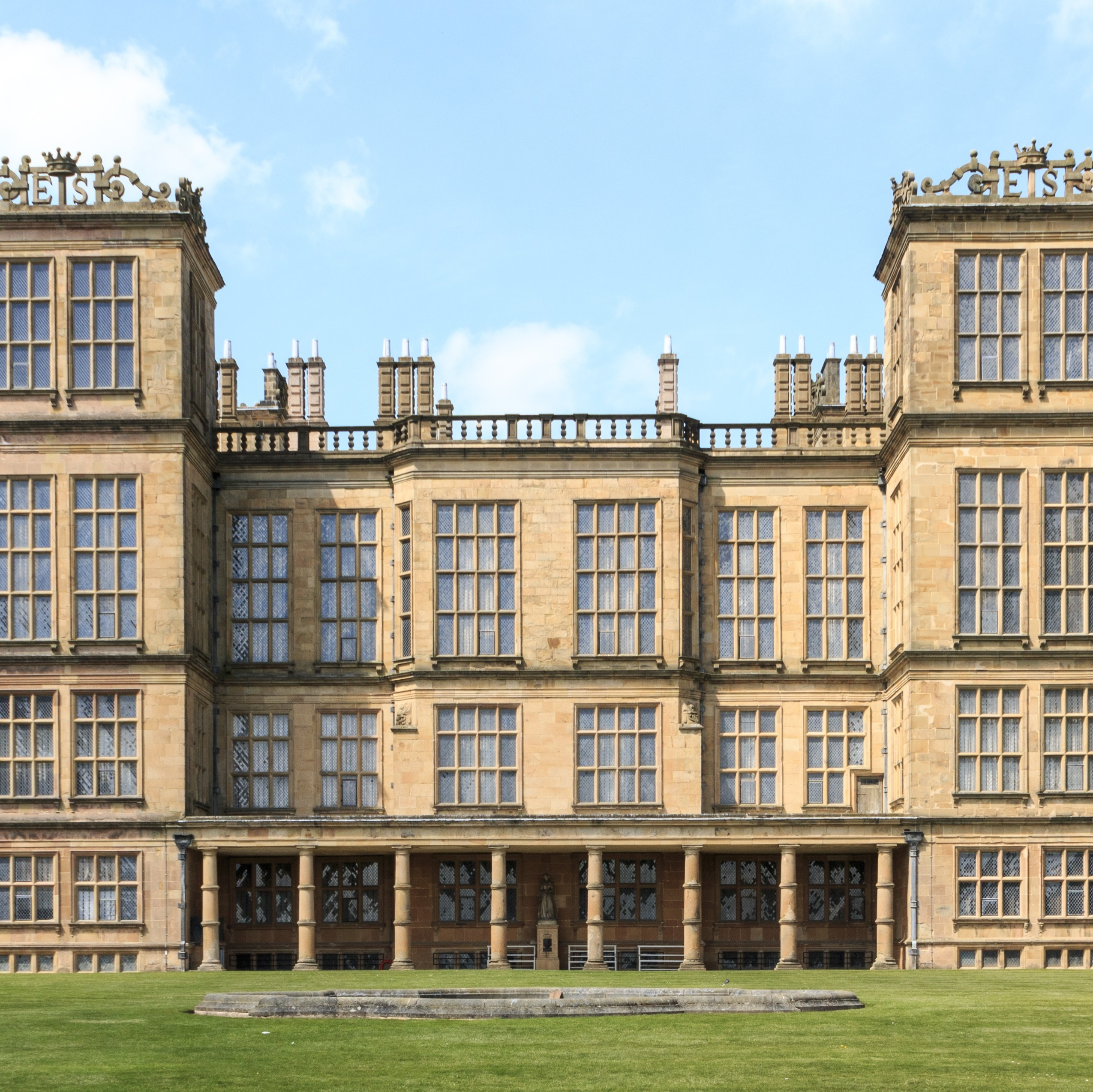 Hardwick Hall Derbyshire Bess of Hardwick